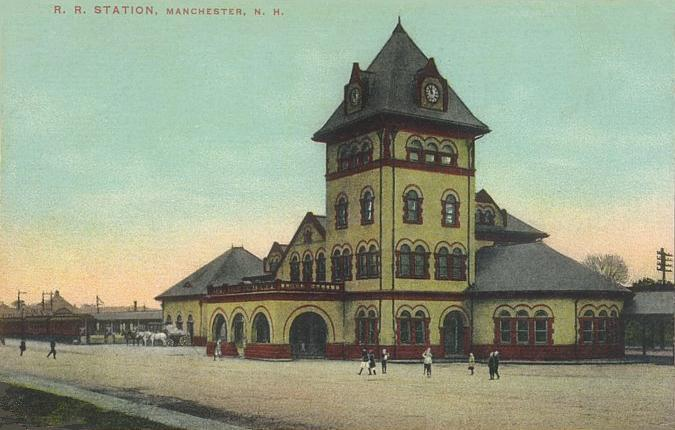 Union Station, Manchester, New Hampshire; from a c. 1910 postcard. Built about 1897 by the Boston & Maine Railroad, the depot was demolished in the early 1960s.